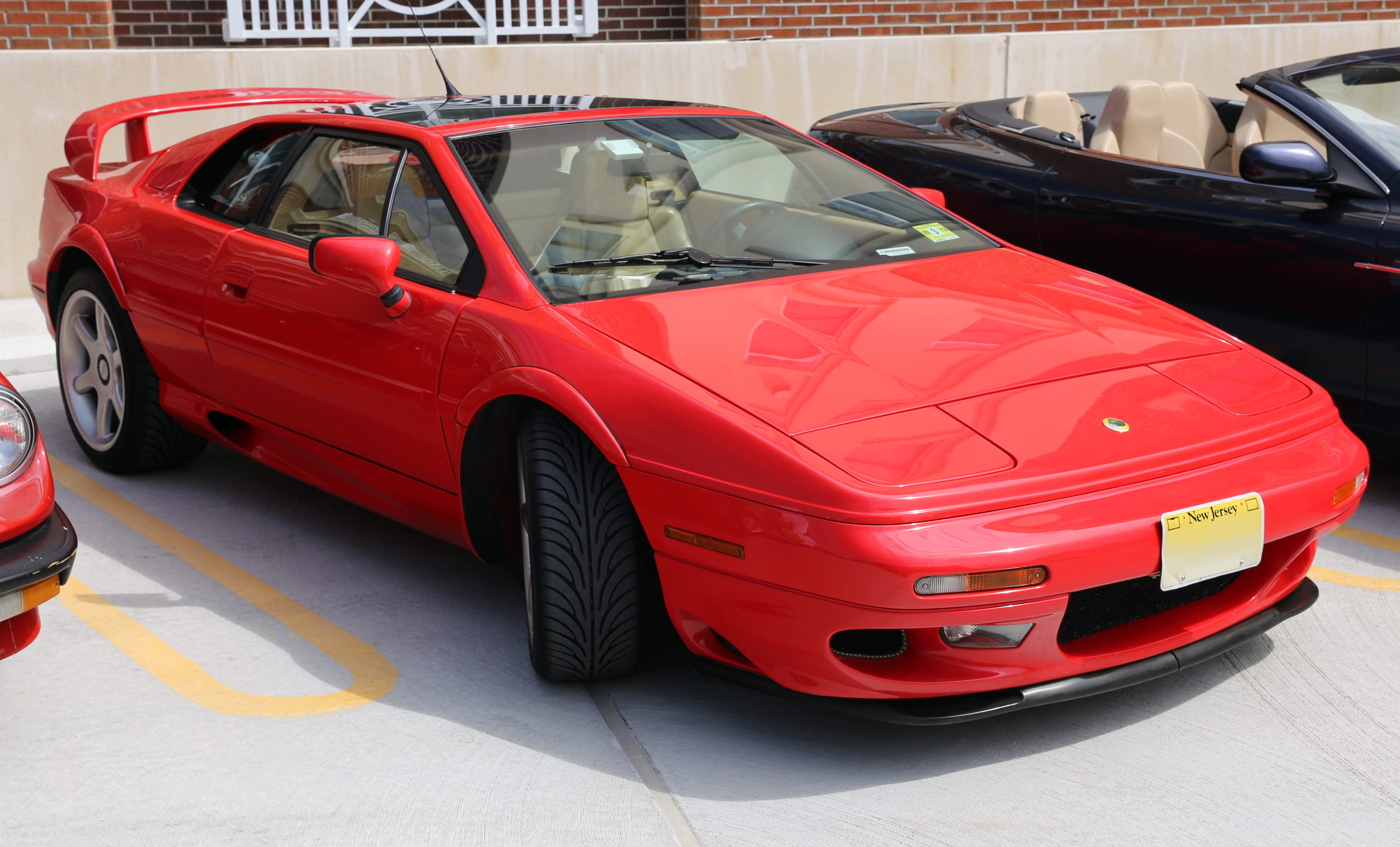 1999 Lotus Esprit V8, US market version.